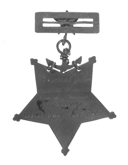 Reverse of a Medal of Honor awarded to Ordinary Seaman Samuel W. Davis, United States Navy, for "extreme courage" while acting as a look-out for torpedoes and other obstructions on board USS Brooklyn during the Battle of Mobile Bay, Alabama, 5 August 1864.